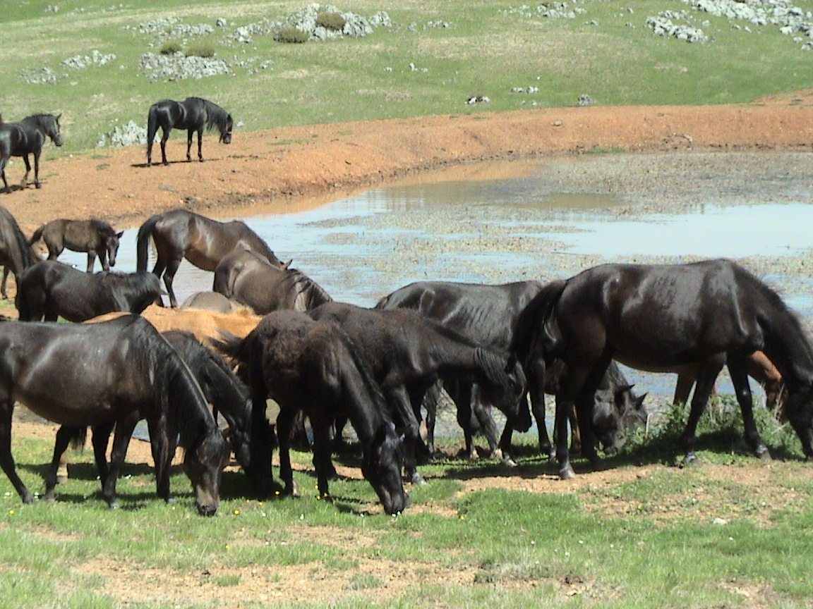 Bosnian Pony